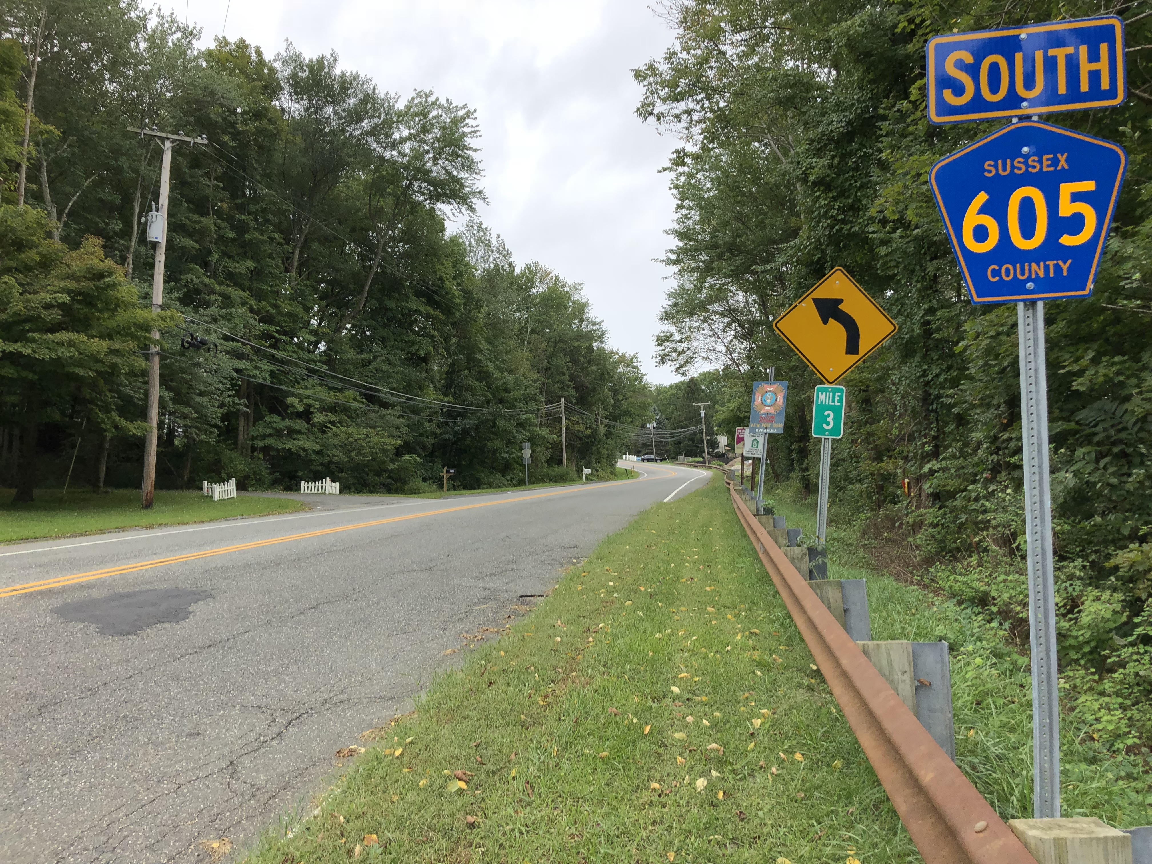 View south along Sussex County Route 605 (Stanhope-Sparta Road) at Sussex County Route 607 (Maxim Drive) in Hopatcong, Sussex County, New Jersey